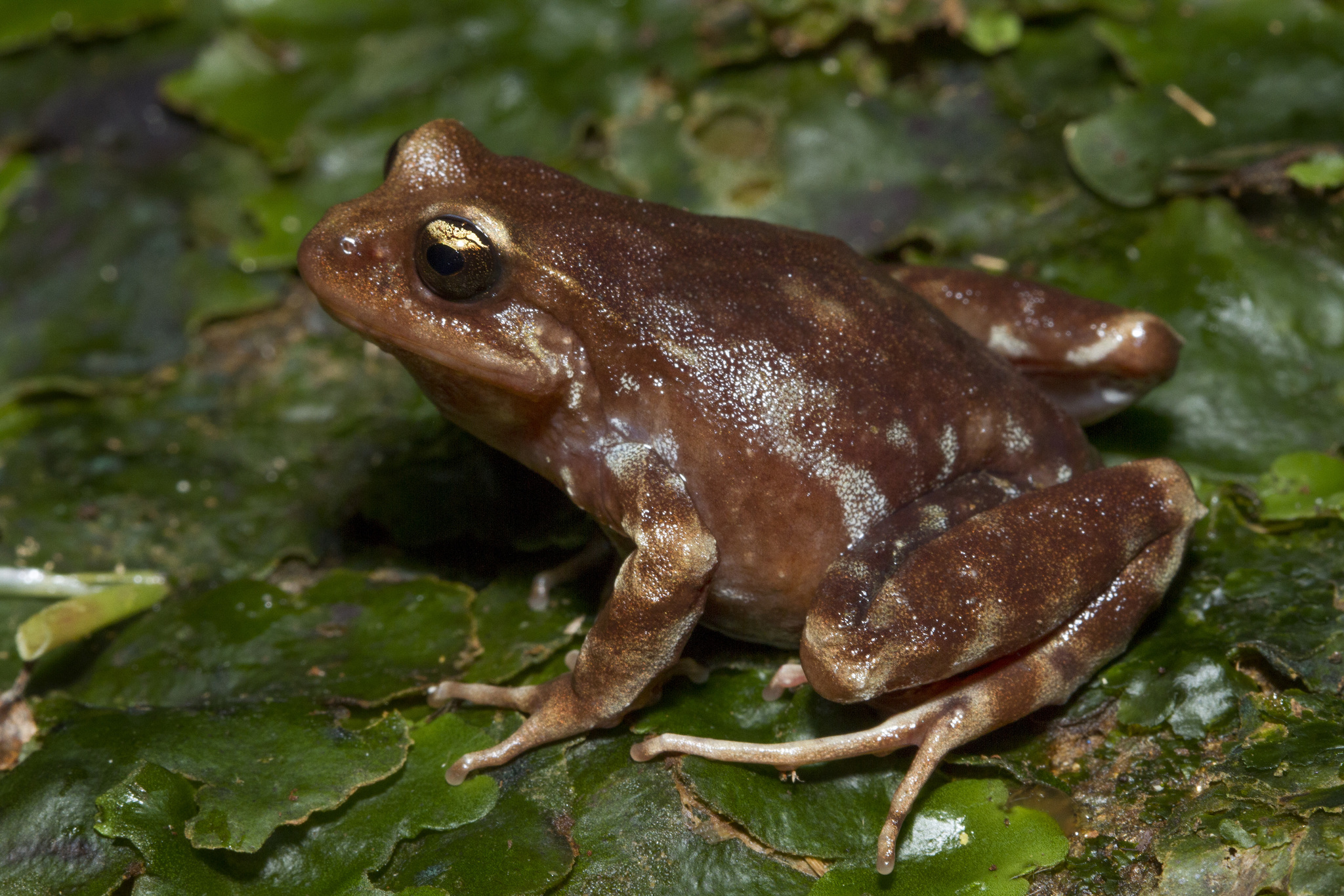 Miguel's Ground Frog (Eupsophus migueli)